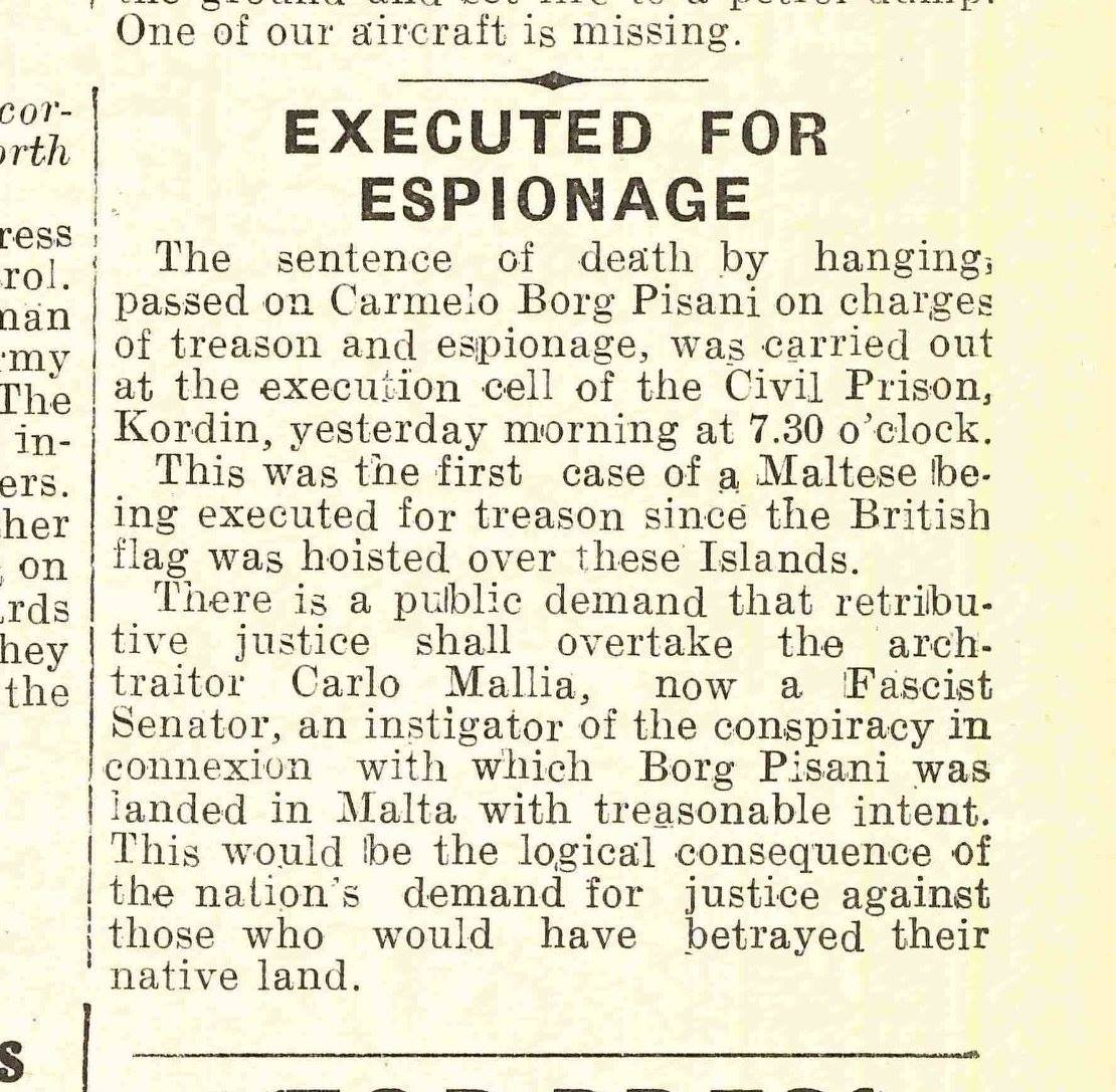 The day after Carmelo Borg Pisani’s execution. The Sunday times of Malta reports his death. Malti: L-għada tal-mewt ta’ Carmelo Borg Pisani; is-Sunday Times of Malta tagħti l-aħbar li ġie mogħti l-forka.